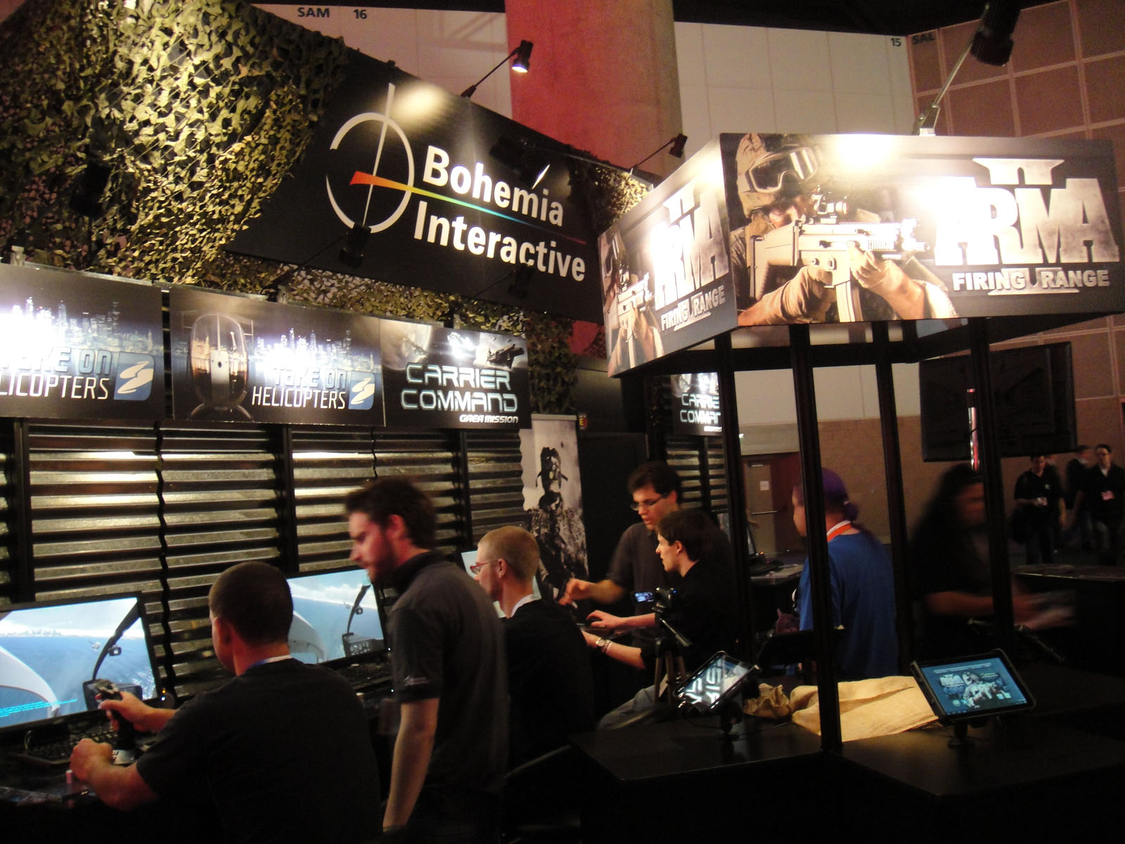 photo 2011 taken by Doug Kline If you're interested in higher resolution versions of my images, contact me via my profile page.